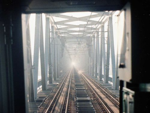 Tokyo Metro Arkawa Nagagawa Bridge